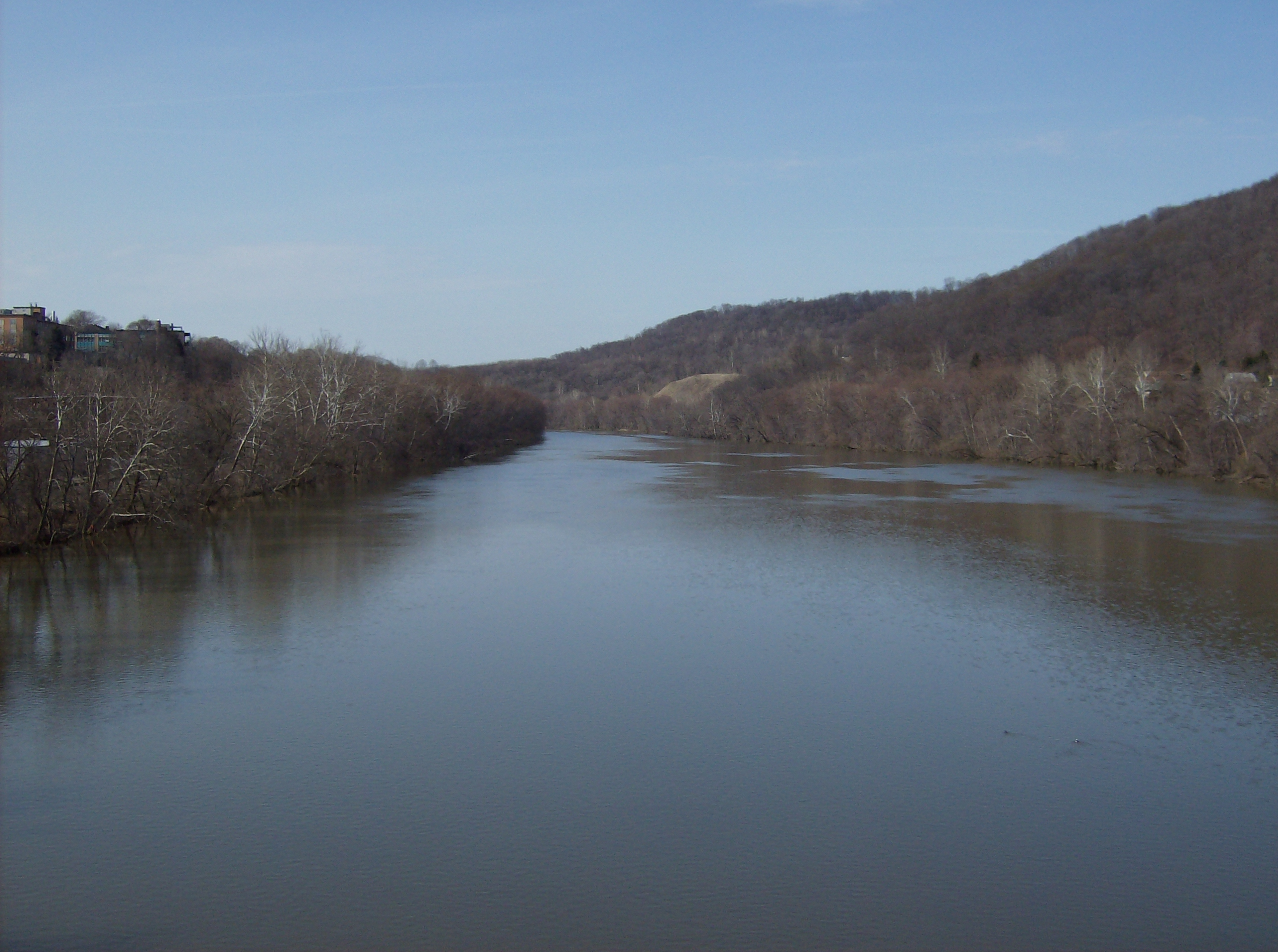 View upstream along the Beaver River in Beaver County, Pennsylvania, United States. Picture taken from the Route 588 bridge between Beaver Falls to the left and Eastvale to the right.